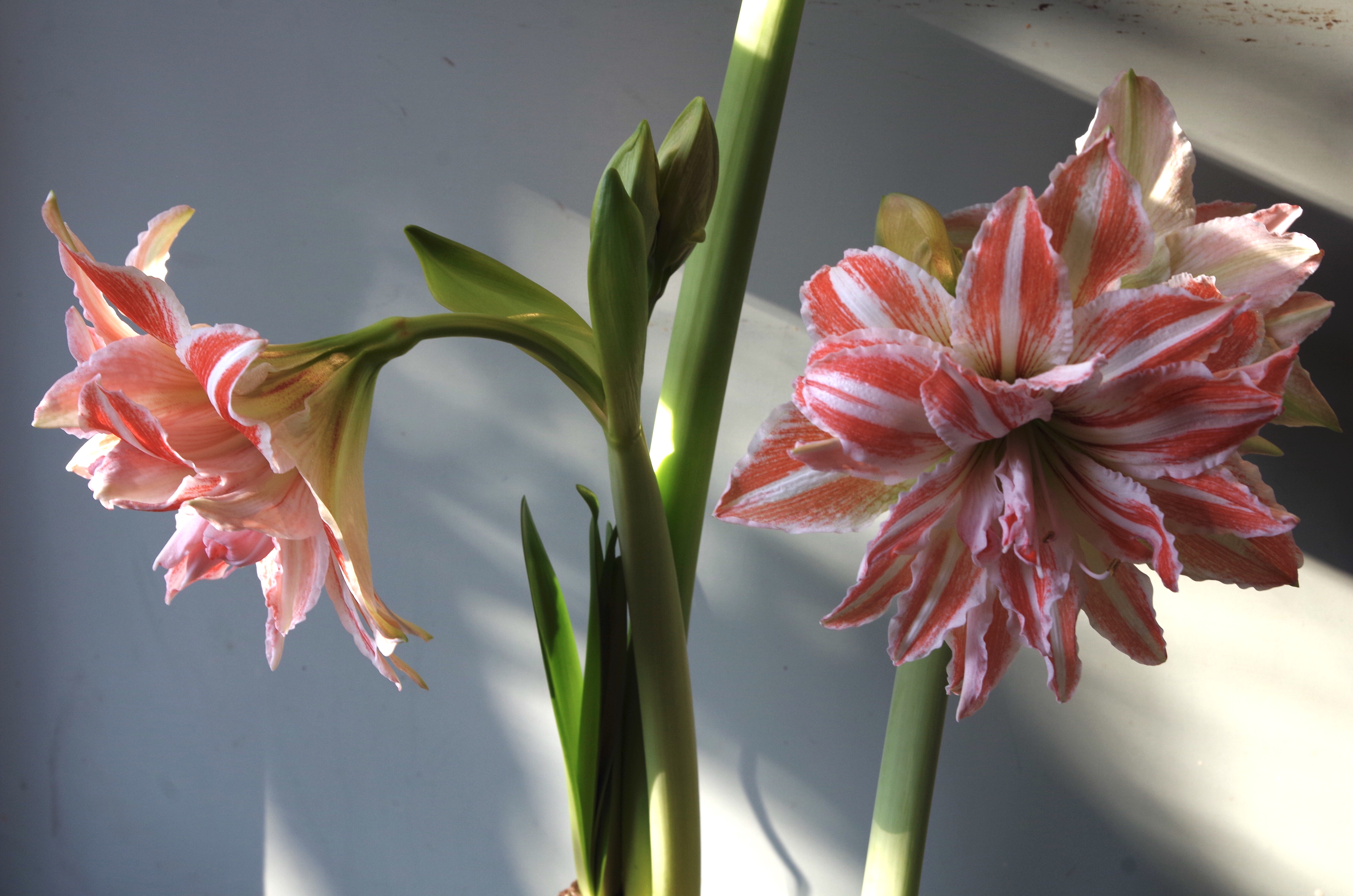 Flowers of this variety, photographed in natural sunlight. Commonly grown as a short-lived houseplant in England from bulbs imported from the Netherlands: planted in early winter to flower in January.